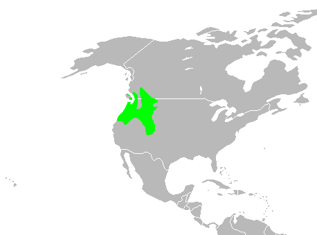 Approximate North American range of Tegenaria agrestis (Hobo spider). This spider is native to Europe and its European range is NOT shown on this map.